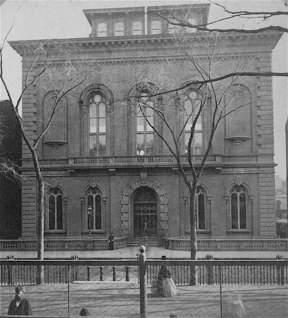 Accession No.: 06_11_000528 Title: Public Library, Boston Local Subject: Public Buildings Subject: Boston (Mass.) Description: Exterior of Boylston St. Building Format: Derived from sterograph BPL Department: Print |Source=Public Library, Boston |Date=2007-10-29 15:29 |Author=BPL